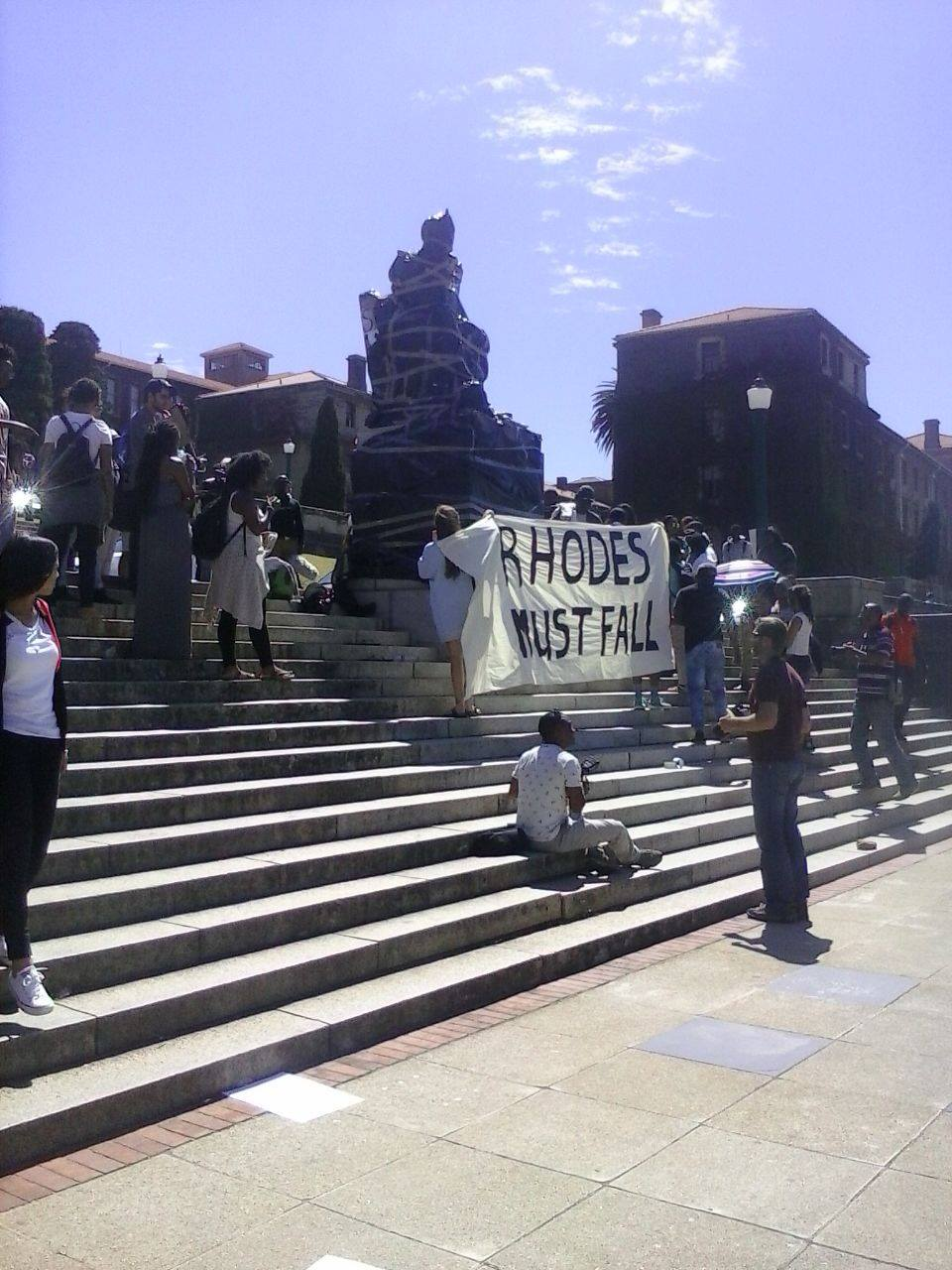 Rhodes' statue must fall. Rhodes is a colonialist who stole land from us (Black people). This is an image of Cultural Fashion or Adornment from South Africa